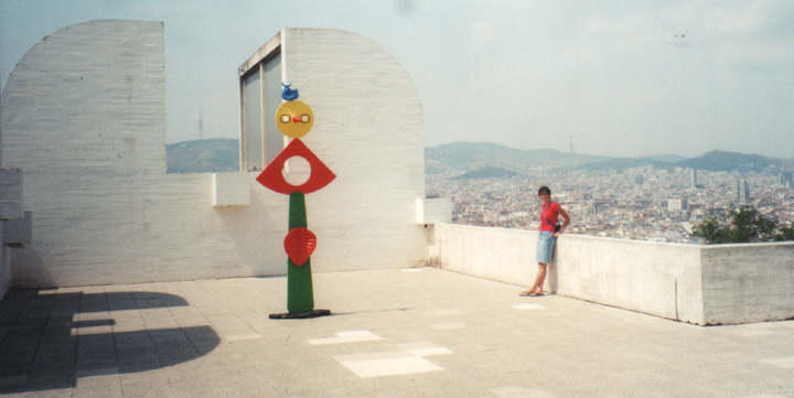 Joan Miro Museum in Barcelona. photo taken in July 2002. author - Георги Петров